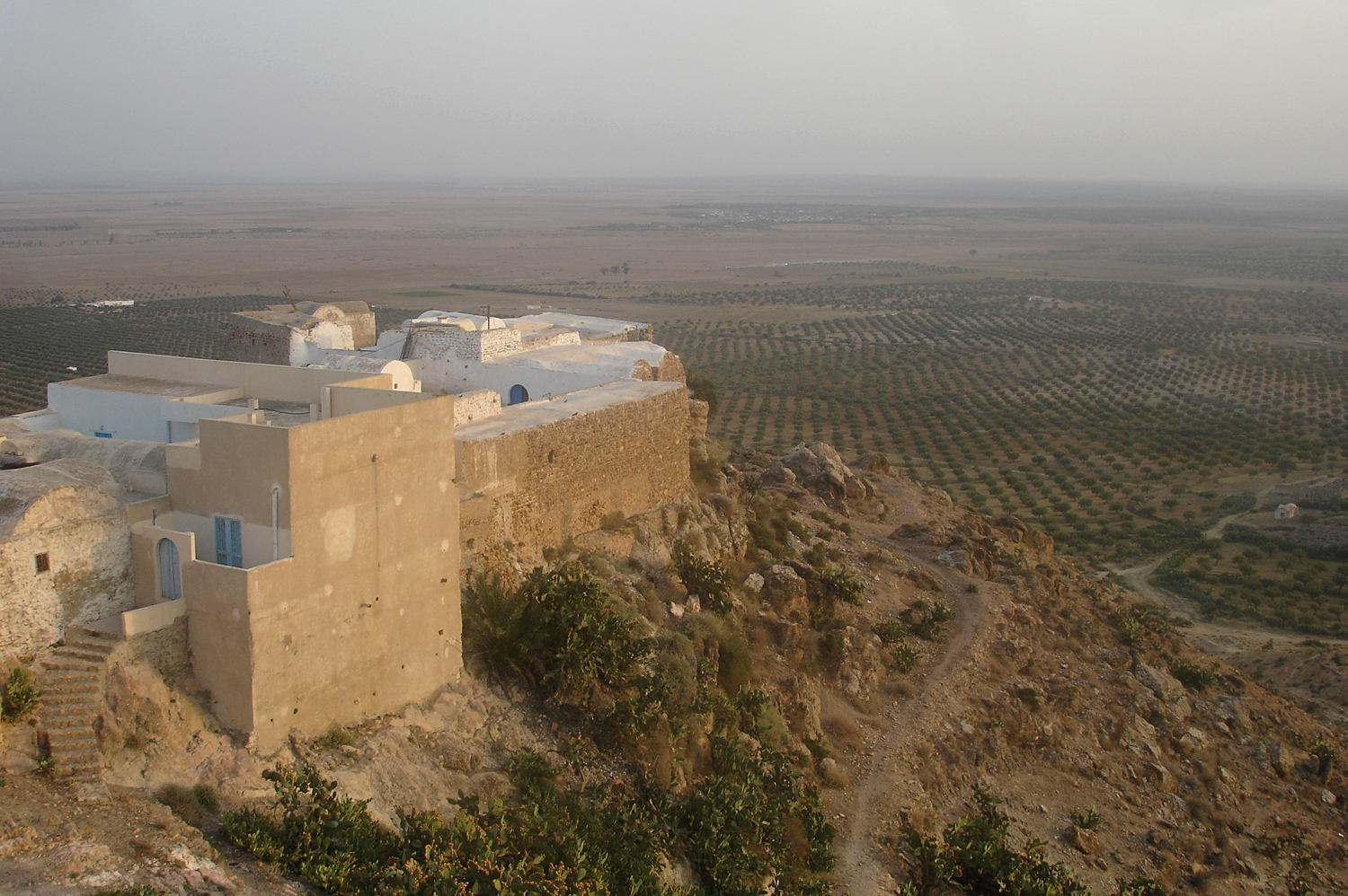 Takrouna (Tunisia)